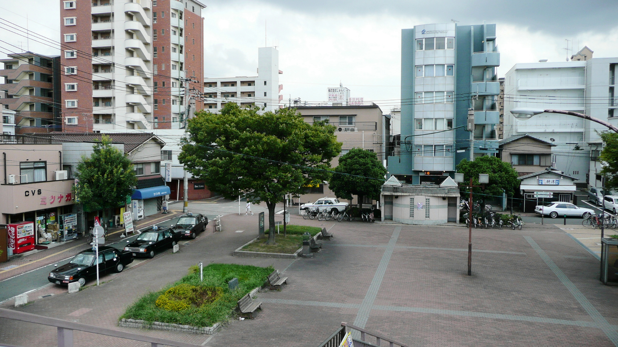 Kyushukodaimae Station plaza,Kagosima Main Line.